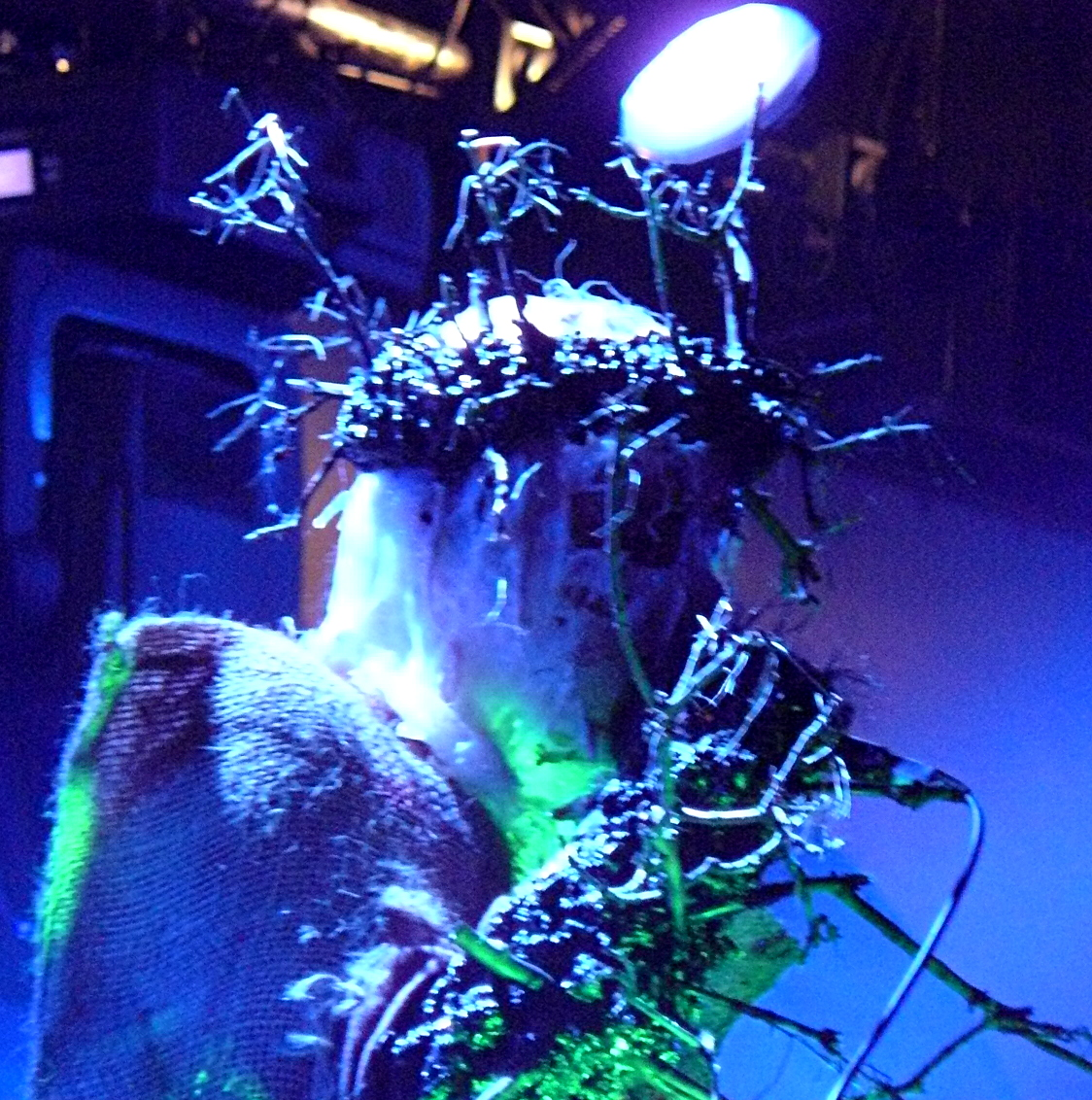 This is Attila Csihar dressed as a zombie tree monster, singing in the band Sunn0))) playing at Butlins in Minehead at the ATP festival.